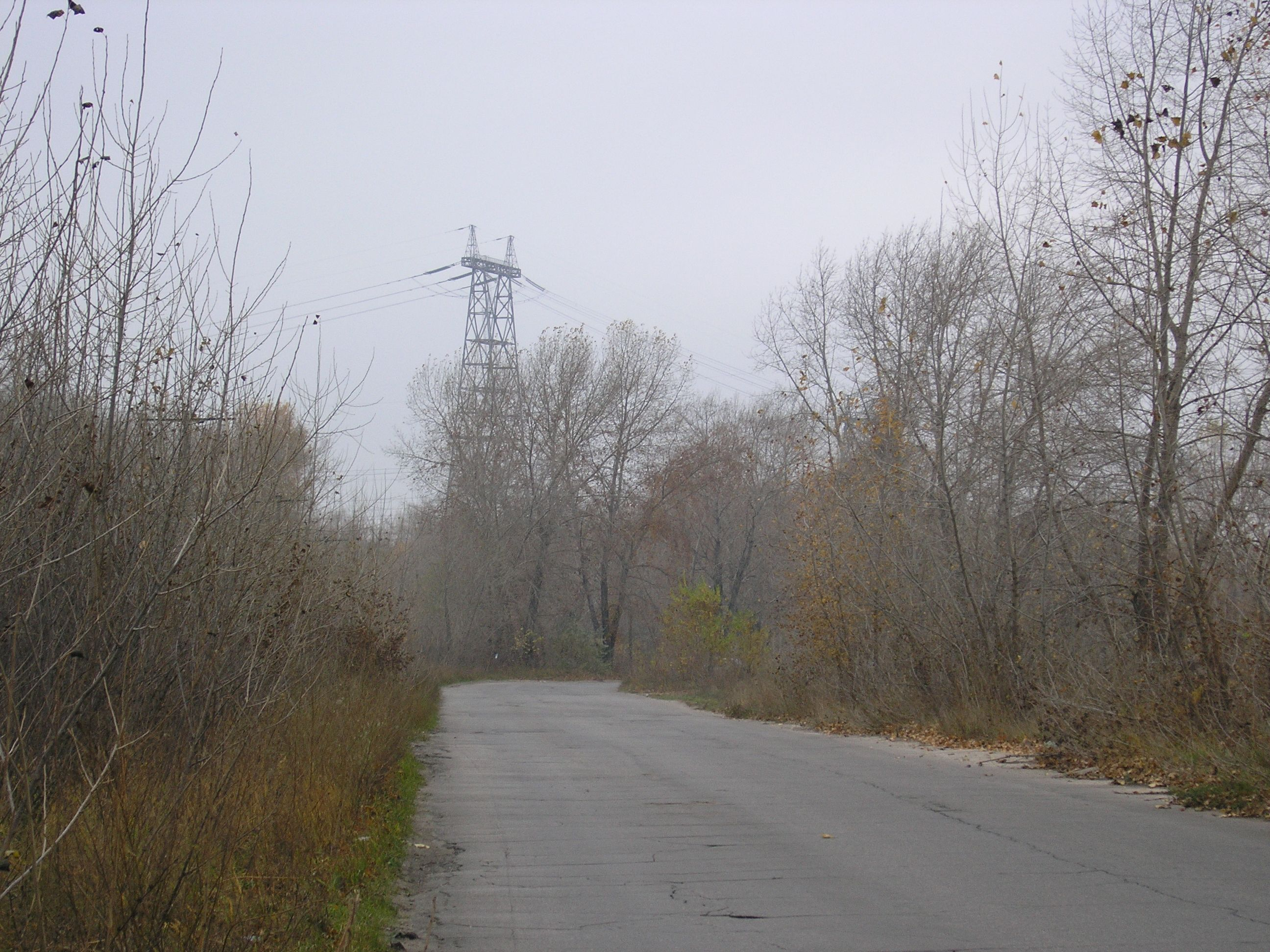 Burlackaya street, Togliatti, Russia